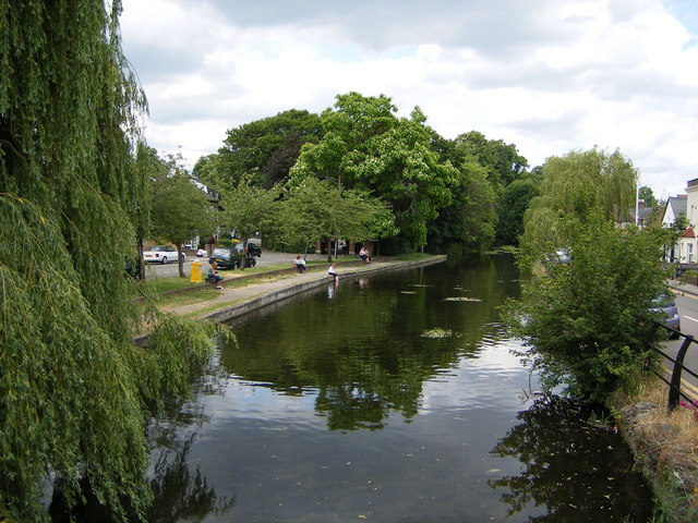 Fray's River. Taken from Rockingham Road bridge